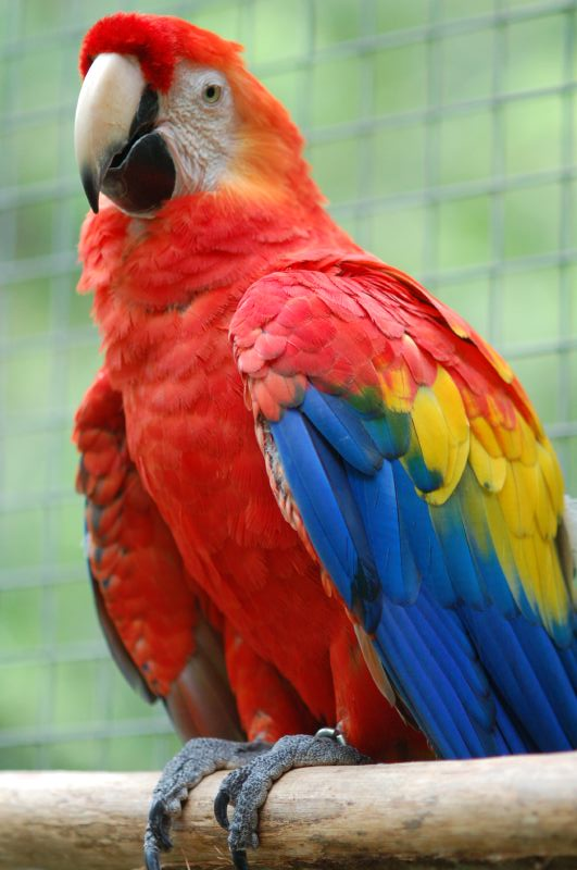 Scarlet Macaw in a zoo in Honduras.